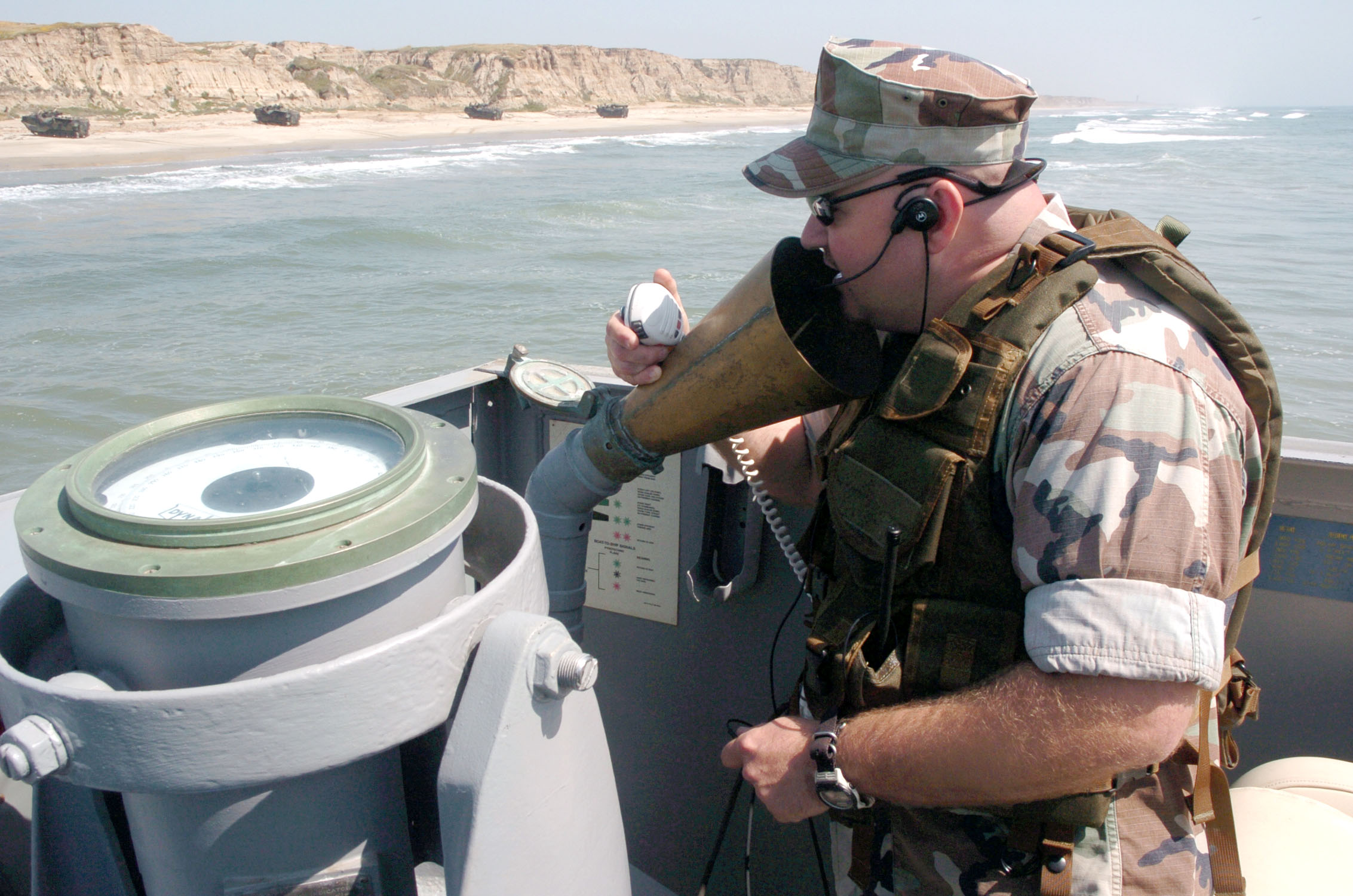 050416-N-5517C-109 Pacific Ocean (April 16, 2005) – Chief Quarter Master Michael Kerr, the craft master of the Assault Craft Unit One (ACU-1) communicates to his crew members through a voice tube. ACU-1 is based out of North Island, San Diego, Calif. U.S. Navy photo by Photographer’s Mate Airman Matthew Clayborne (RELEASED)